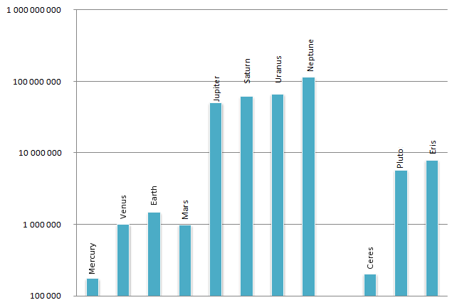 Radius of the Hill sphere of our solar system's planets and some of the dwarf planets.